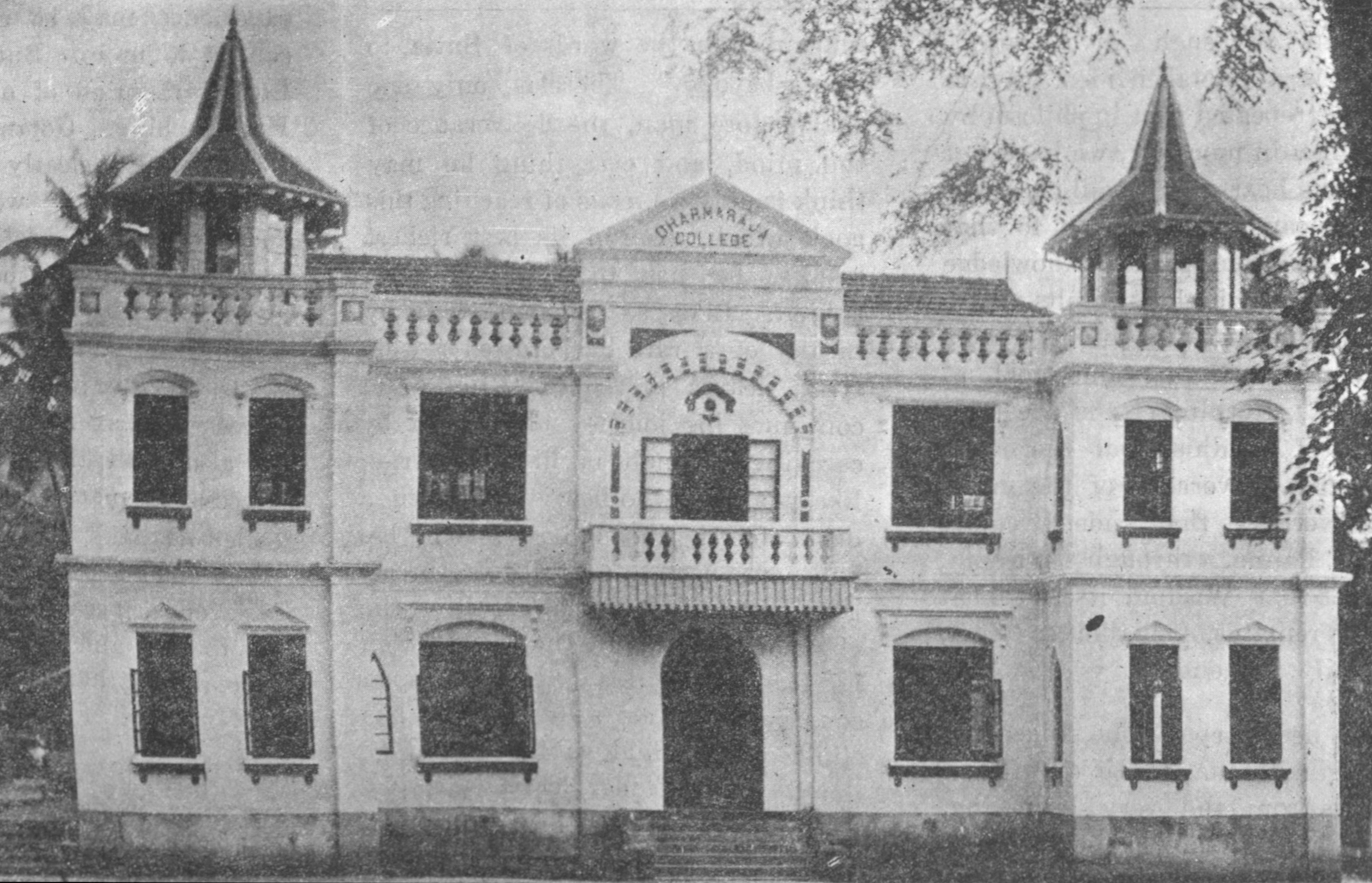 Dharmaraja College, Kandy, “new building” begun 1915.